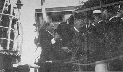 Atatürk on Gülcemal Ship (5 June 1926)